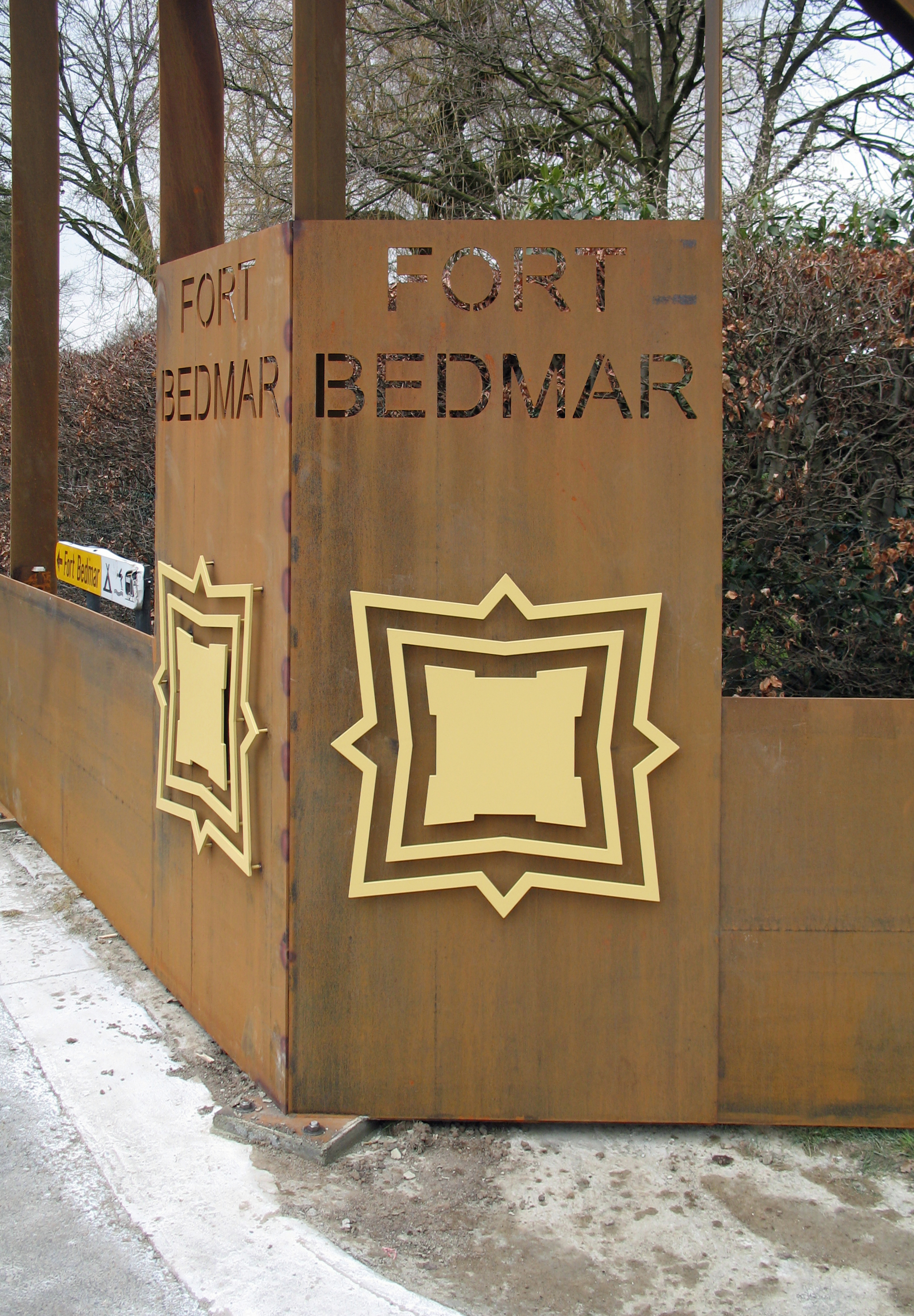 De Klinge (Sint-Gillis-Waas municipality, province of East Flanders, Belgium): memorial for the 18th century Fort Bedmar